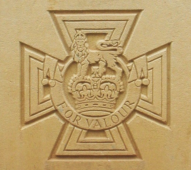 Image of Victoria Cross Medal as appears on CWGC gravestones. Medal design was UK Crown copyright prior to 1952 and now in the public domain.